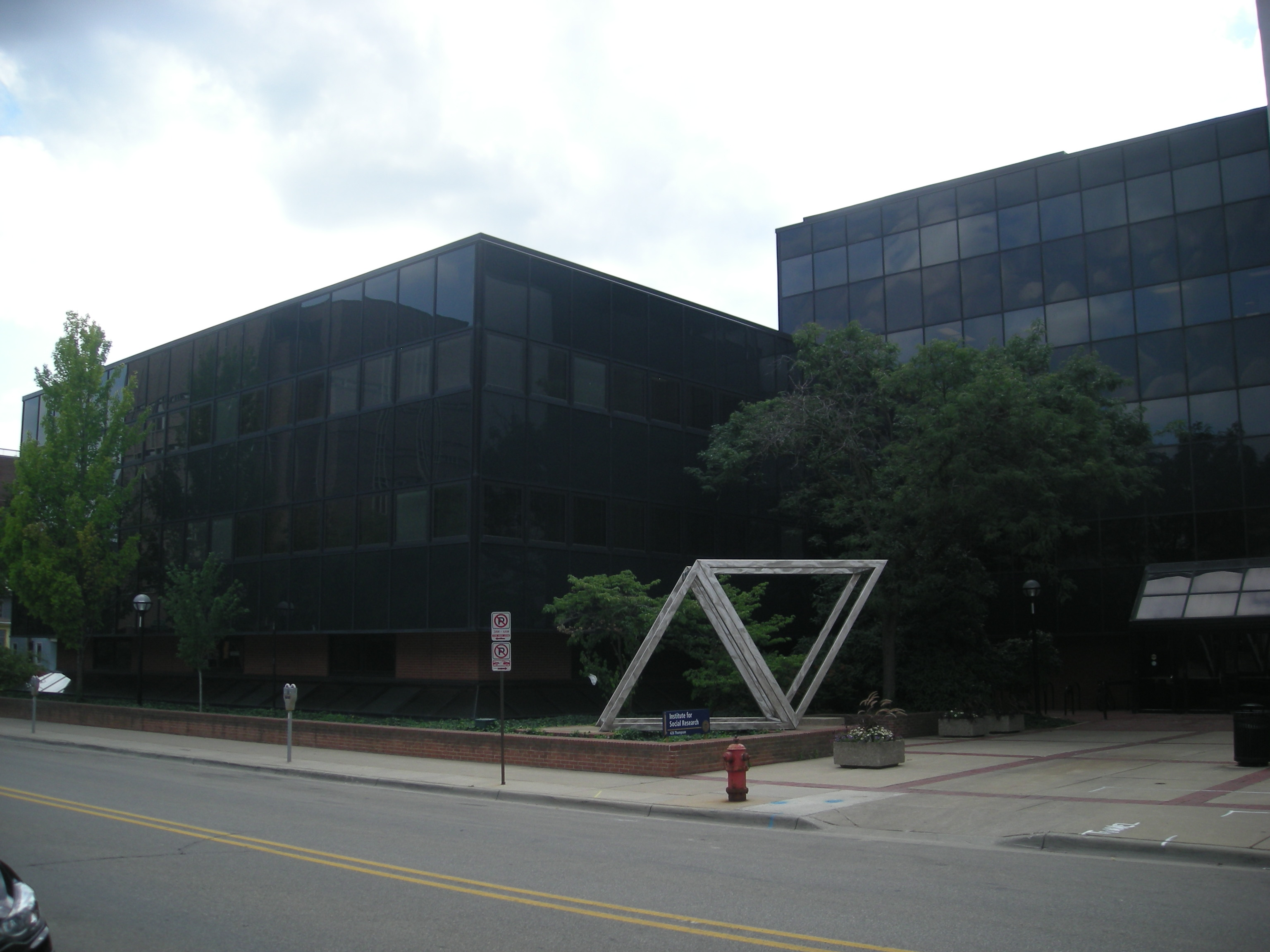 The Institute for Social Research on the central campus of the University of Michigan in Ann Arbor, Michigan (United States).